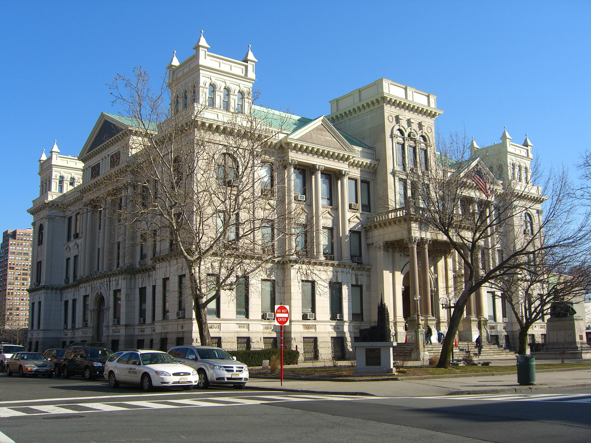 City Hall in Jersey City, New Jersey, as seen on February 28, 2012. This photo was created by Luigi Novi. It is not in the public domain, and use of this file outside of the licensing terms is a copyright violation.